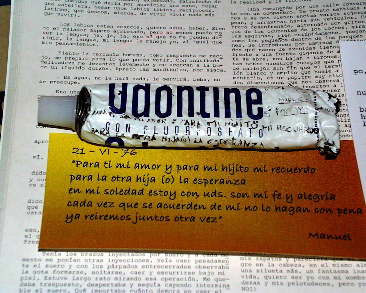 A message from the chilean political prisoner Manuel Guerrero for his wife written on a toothpaste tube. Manuel Guerrero was later murdered. Foto: Exhibition in Salvador Allende Foundation, Santiago.